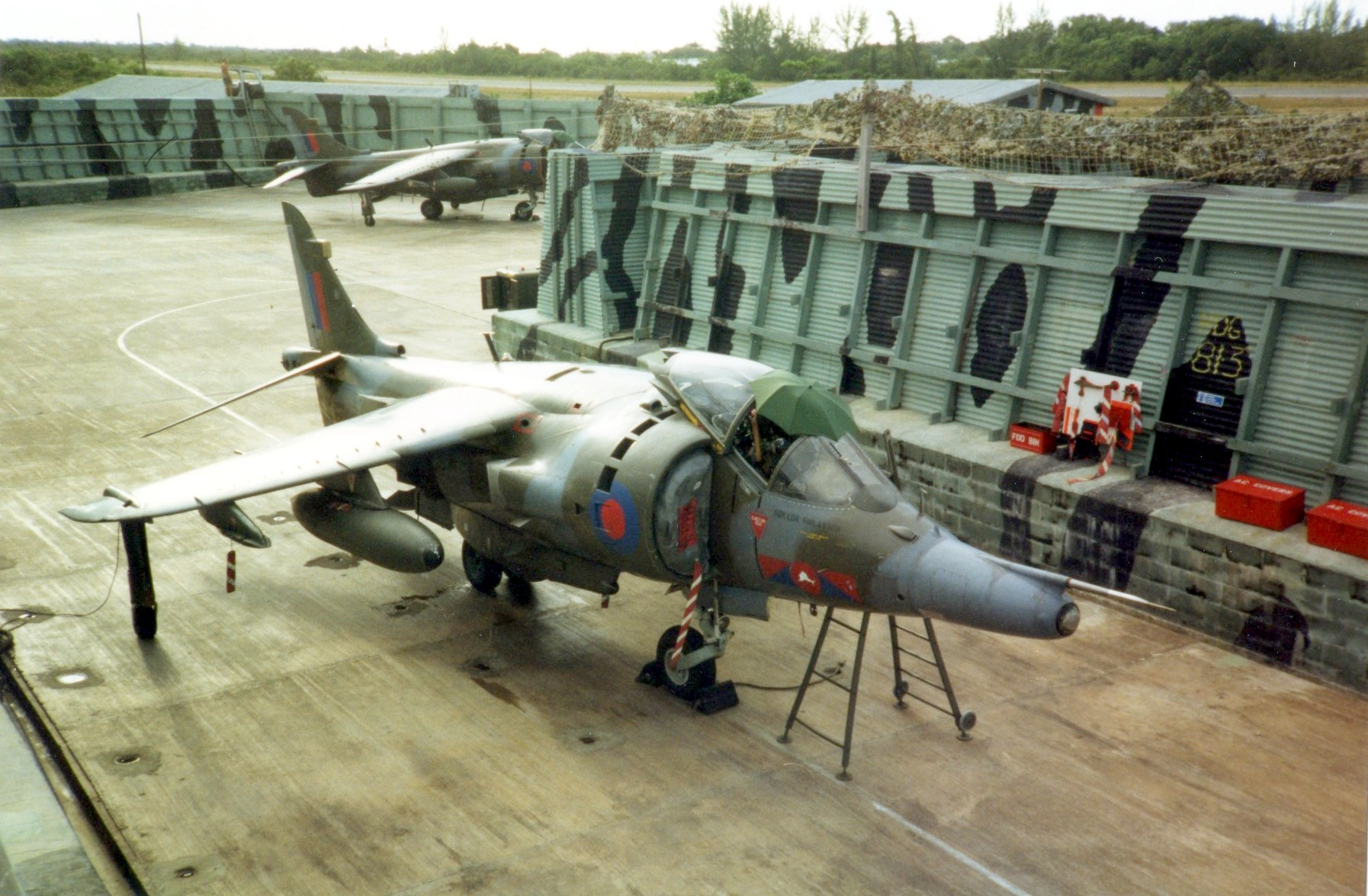 Harrier GR3, 1417 Flight, Golf hide